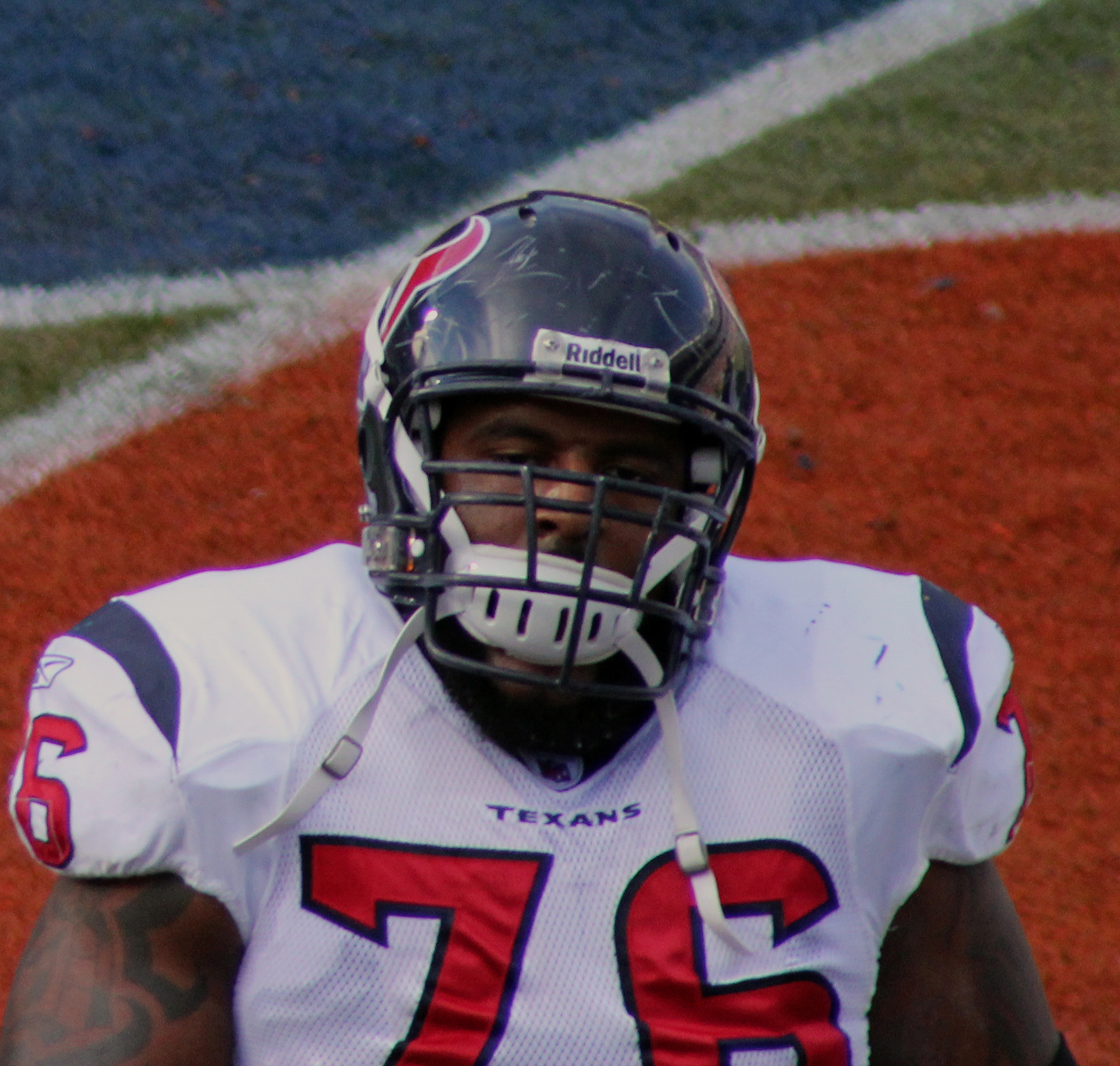 Duane Brown, a player on the Houston Texans American football team.